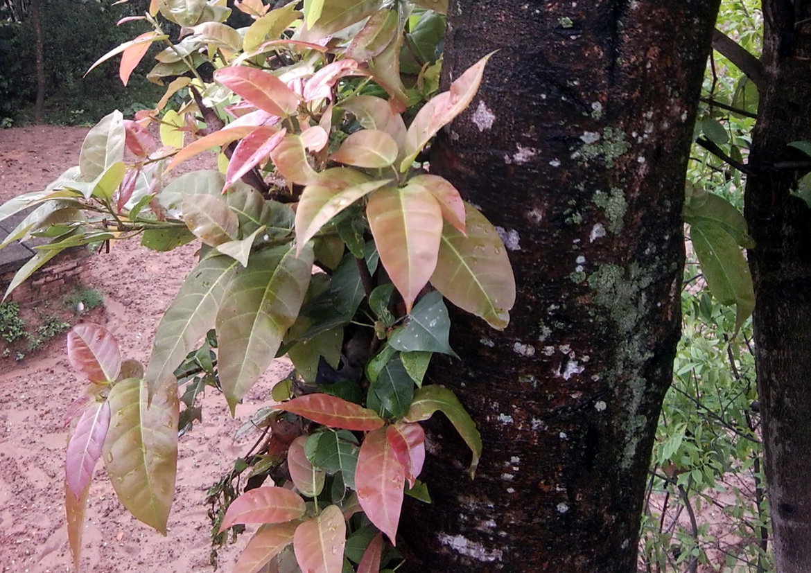 Ficus lacor in Nepal.